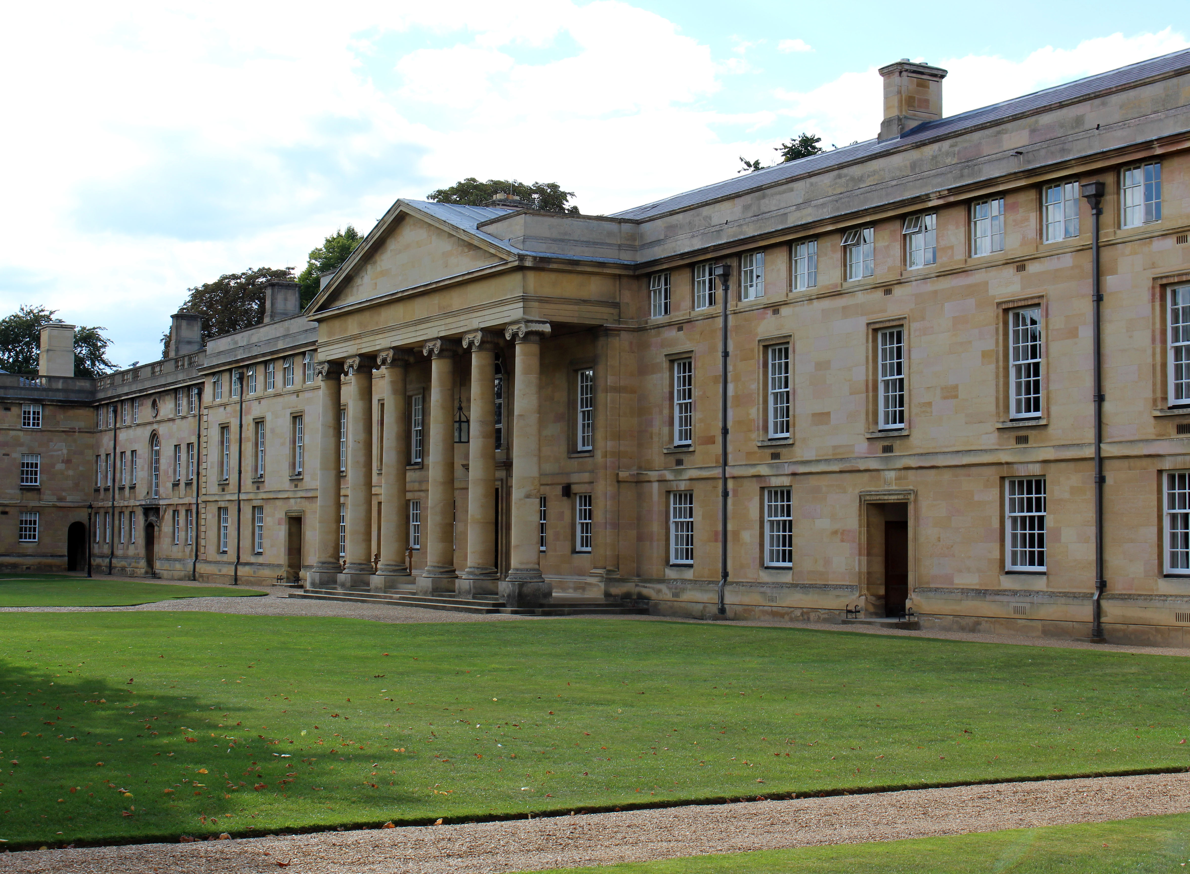 Downing College. The chapel and northern range of staircases